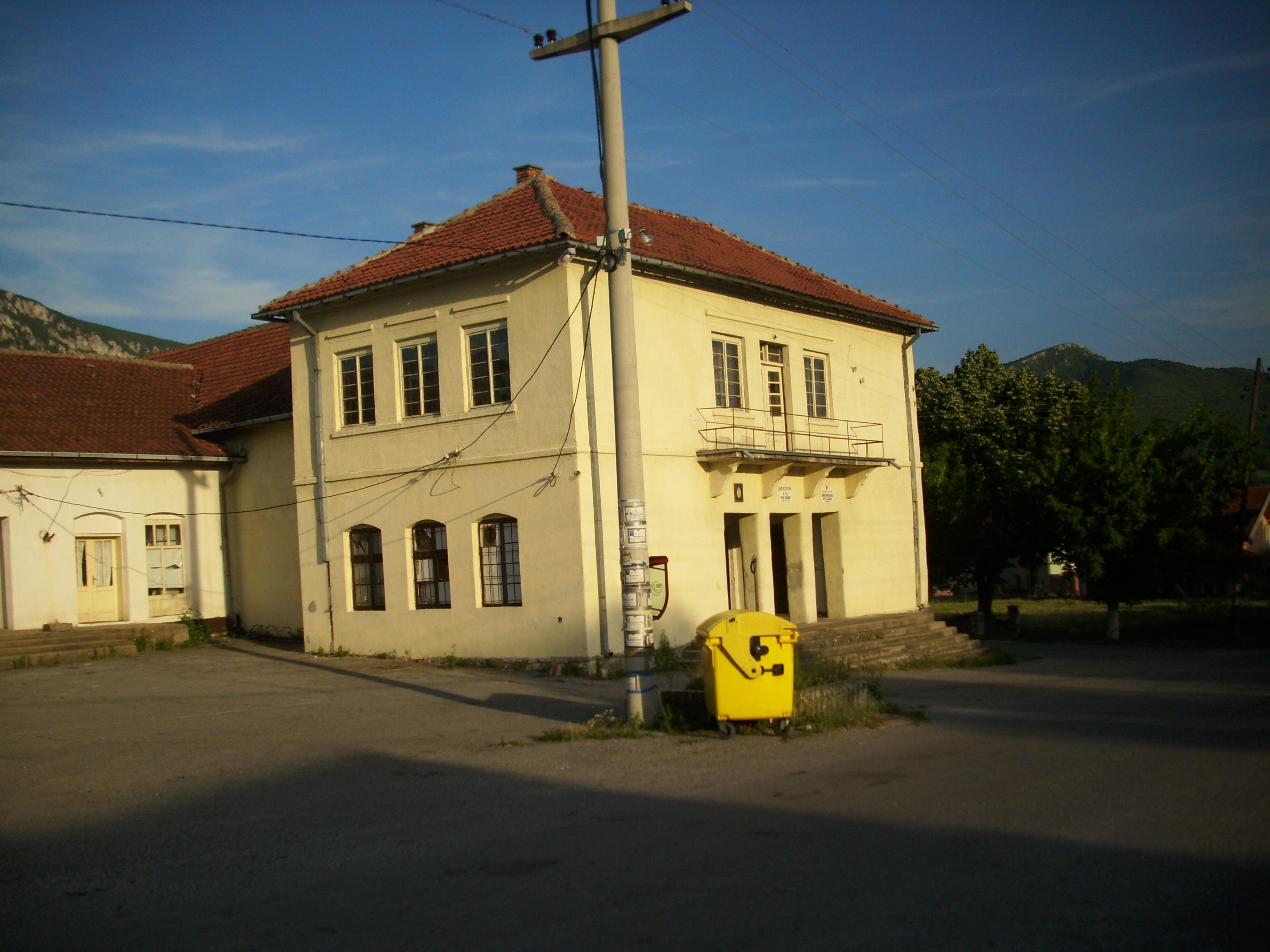 Center of Ždrelo